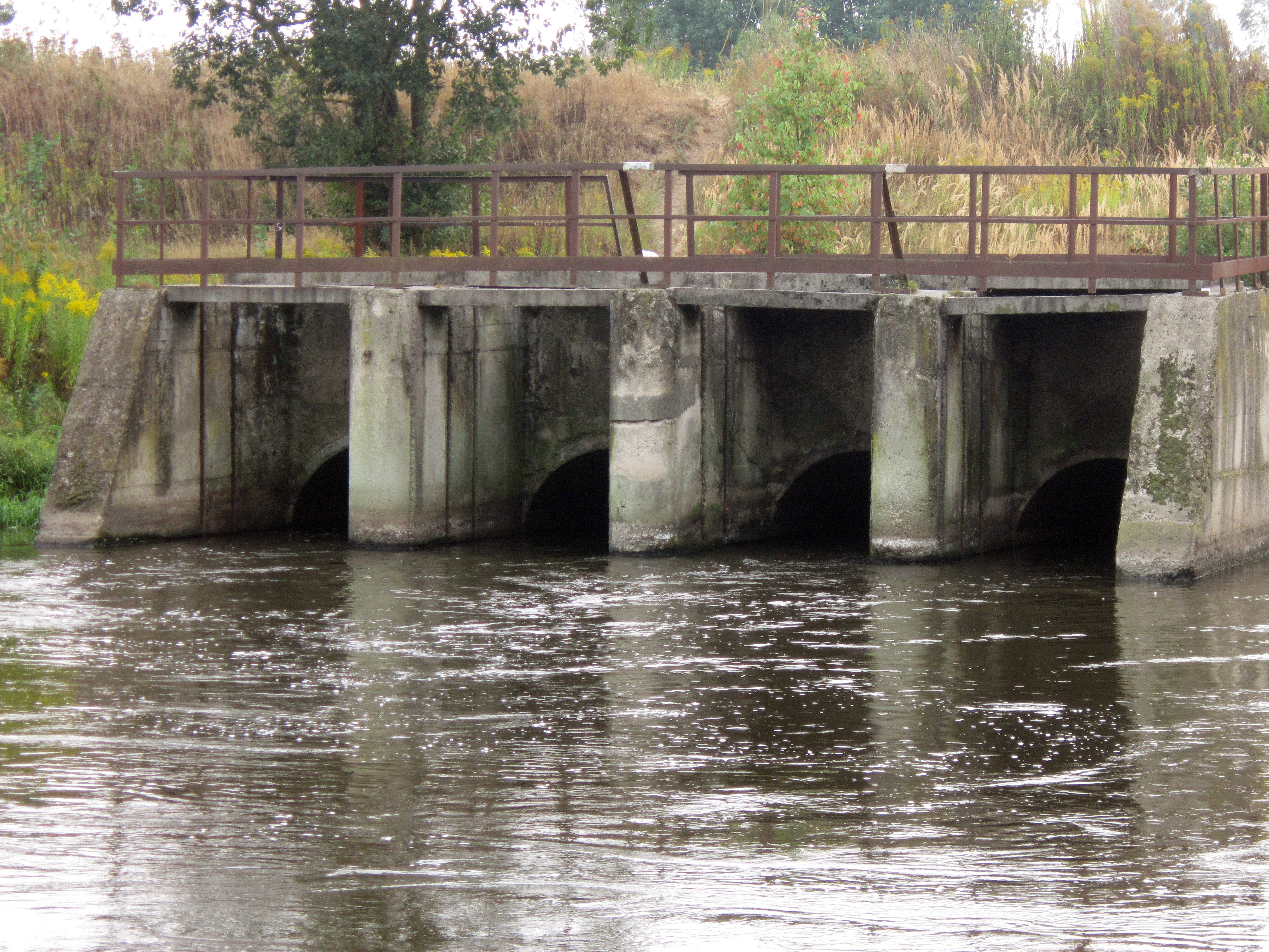 River Svislač in Minsk, Belarus, near the Šabany district. Outlet pipes of the Minsk sewage treatment plant